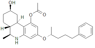 Levonantradol